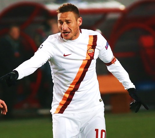 Francesco Totti